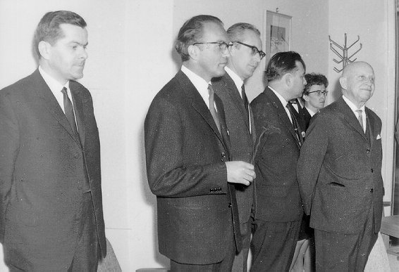 Koltay-Kastner Jenő is at dedication of college Móra